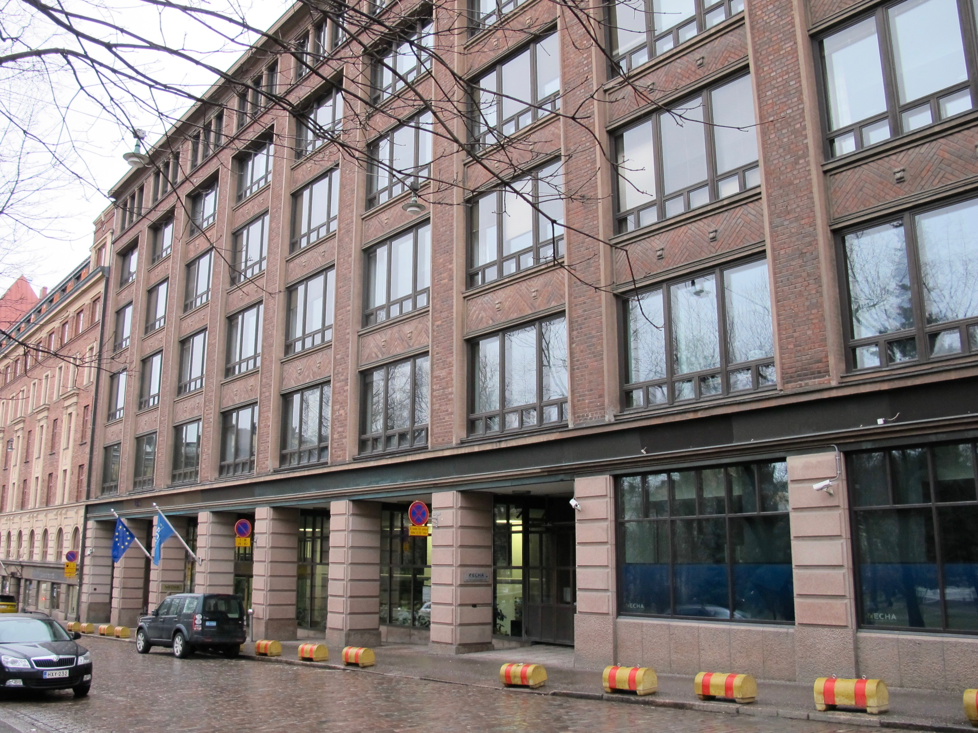 The European Chemicals Agency headquarters in Annankatu, Helsinki on January 2018.